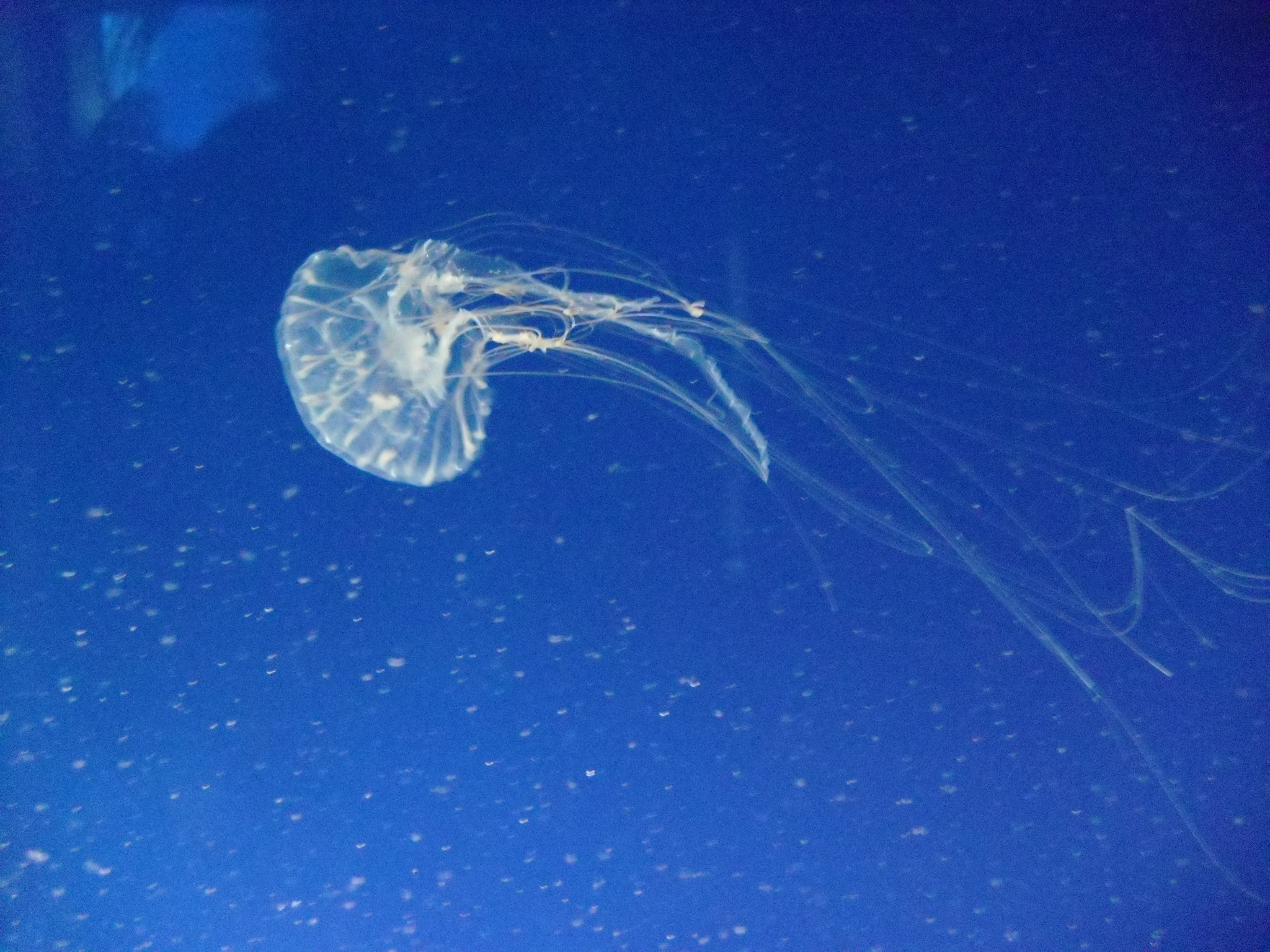 Nettle Jellyfish (scyphozoa), taken off the coast of Oahu.